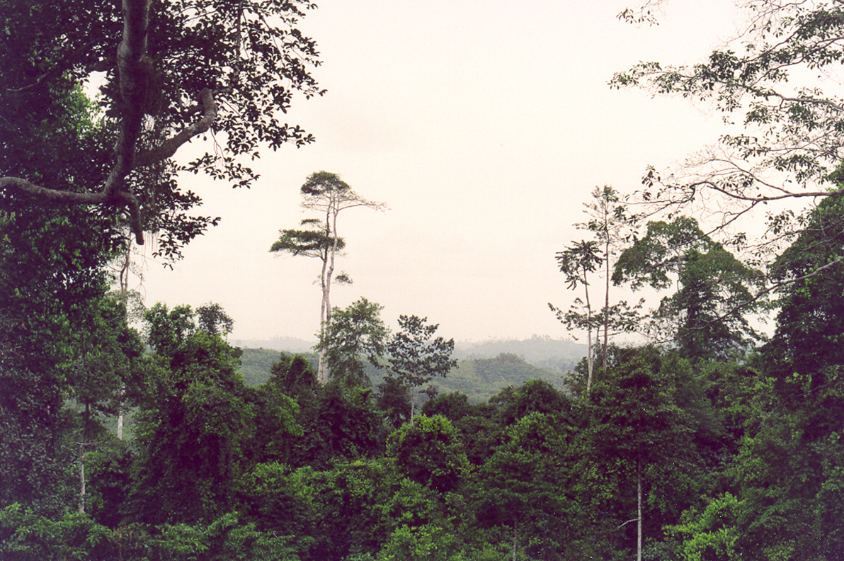 Rainforest in Kakum National Park taken from the canopy walkway in the top of the trees.